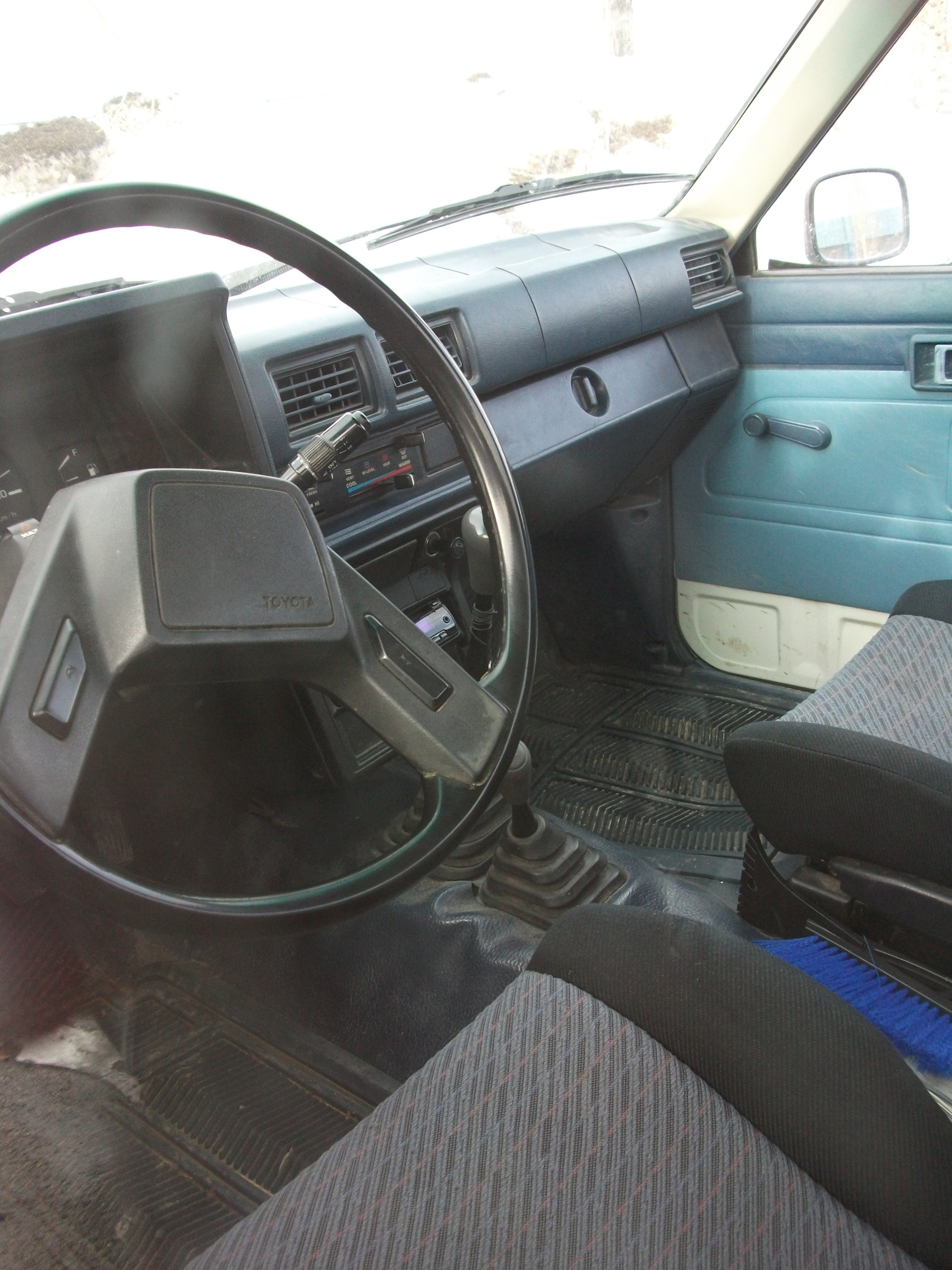 Toyota Hilux truck looking to be in unusually good shape except for the missing bit on the front bumper.